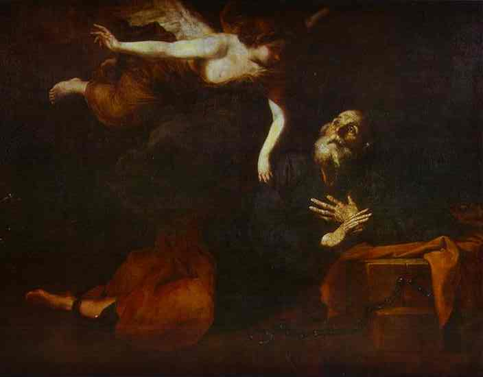 José de Ribera. The Deliverance of St. Peter from Prison. 1642. Oil on canvas. Alte Meister Gallerie, Dresden, Germany.